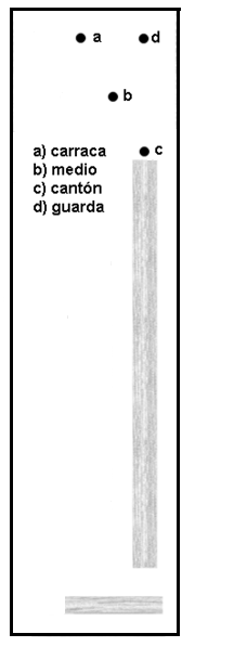 A graphic to explain the setup for Erremonte barrundiarra